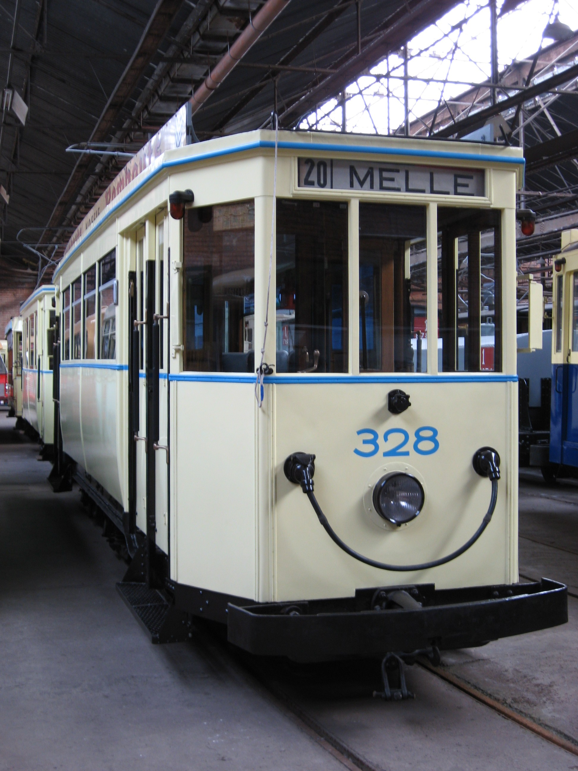 Citytram Ghent Melle in museum.